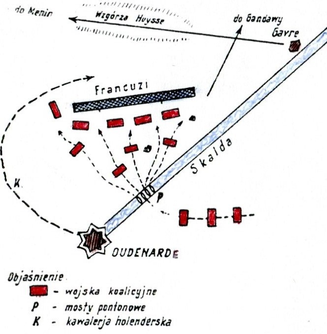 Plan of the battlefield of Oudenarde (late phase)